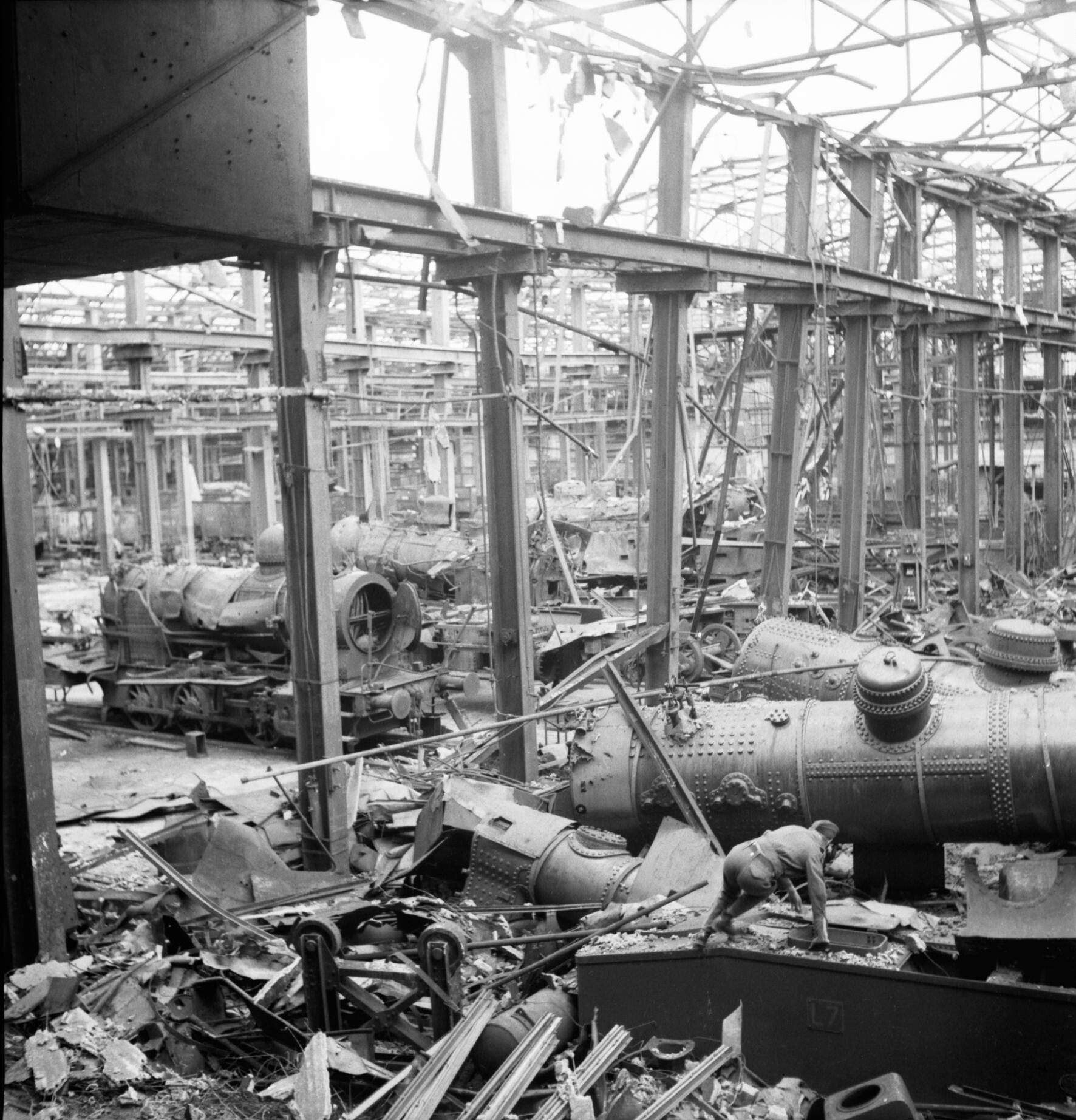 Royal Air Force Bomber Command, 1942-1945. Part of the locomotive shop of the Krupps AG works at Essen, Germany, seriously damaged by Bomber Command in 1943, and further wrecked in the daylight raid of 11 March 1945